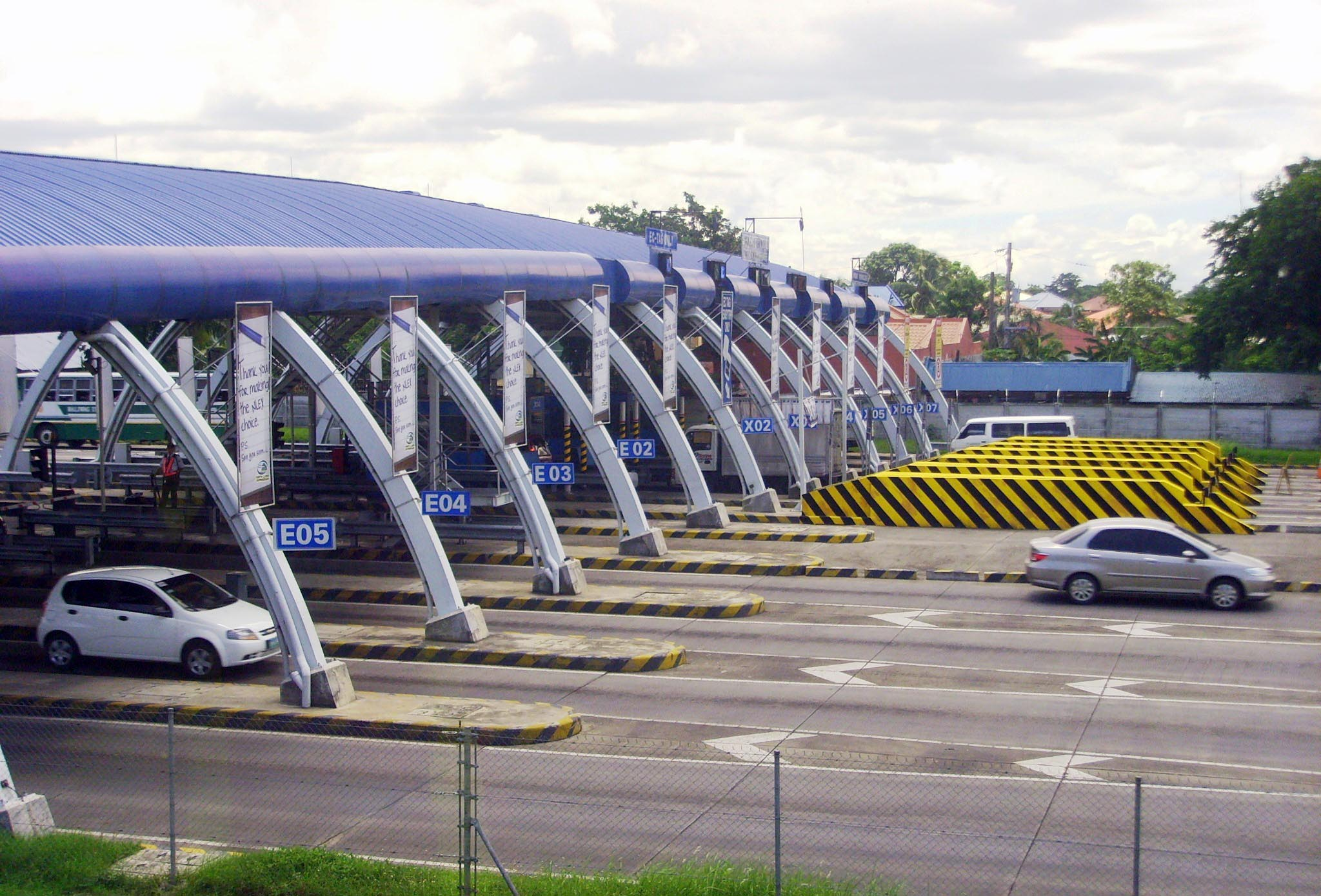 Aerial View of Tabang Toll Barrier, NLEx